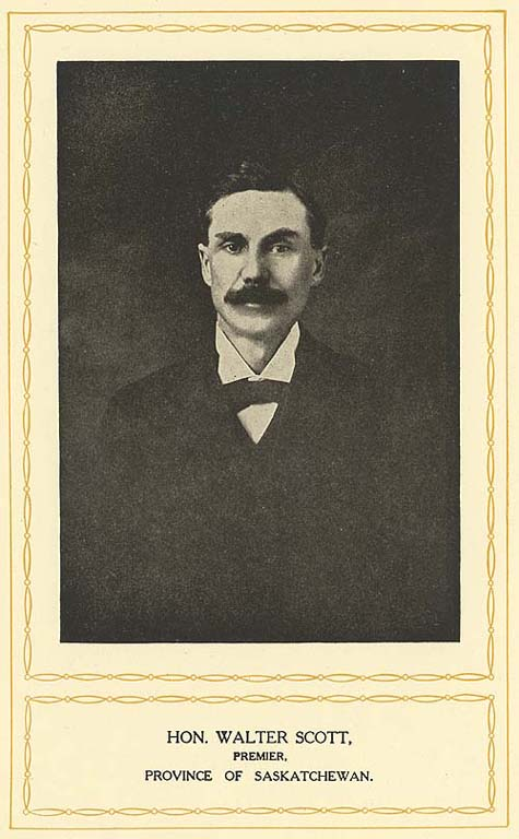 Thomas Walter Scott, First Premier of Saskatchewan RedWolf 22:26, Nov 30, 2003 (UTC)